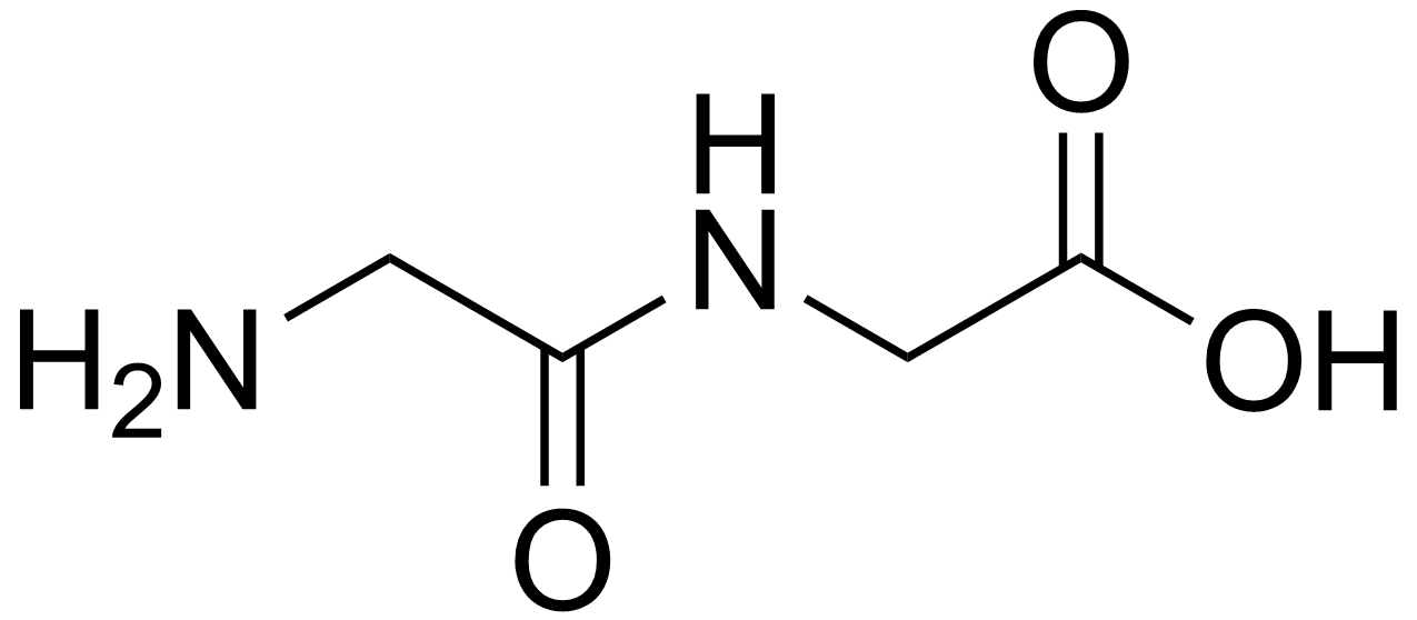 Chemical structure of glycylglycine (gly-gly)